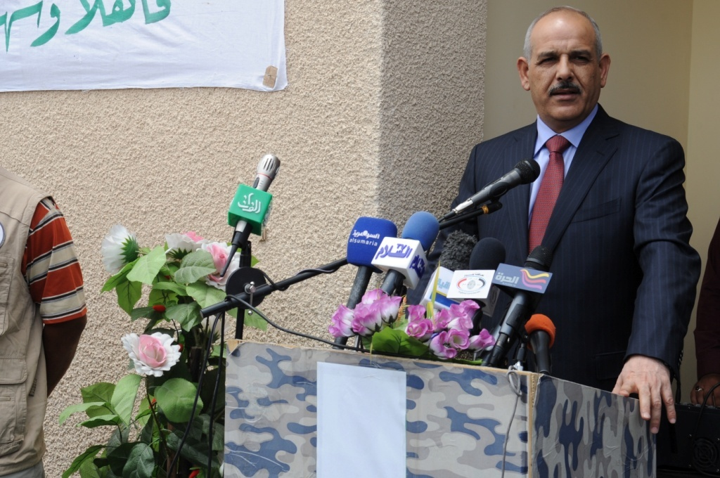 Iraqi's Interior Minister, Jawad al-Bolani, speaks during the opening of the al-Ameen Police Station, May 27, in the 9 Nissan district of eastern Baghdad. The interior minister, along with several senior Iraqi security officials from the district welcomed the opening of the new station as a sign of continued security in the district.